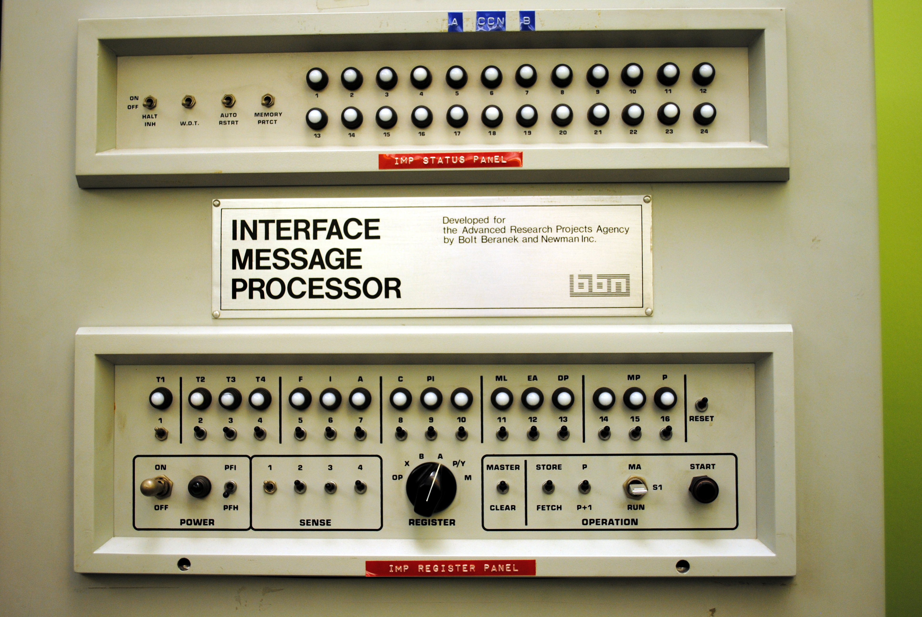 This is a photo of the front panel of the very first Interface Message Processor (IMP). This one was used at the UCLA Boelter 3420 lab to transmit the first message on the Internet. I took this photo at the grand opening of the Kleinrock Internet Heritage Site and Archive, which is a restoration of the original Boelter 3420 lab and equipment as a museum dedicated to preserving the birthplace of the Internet and its history.